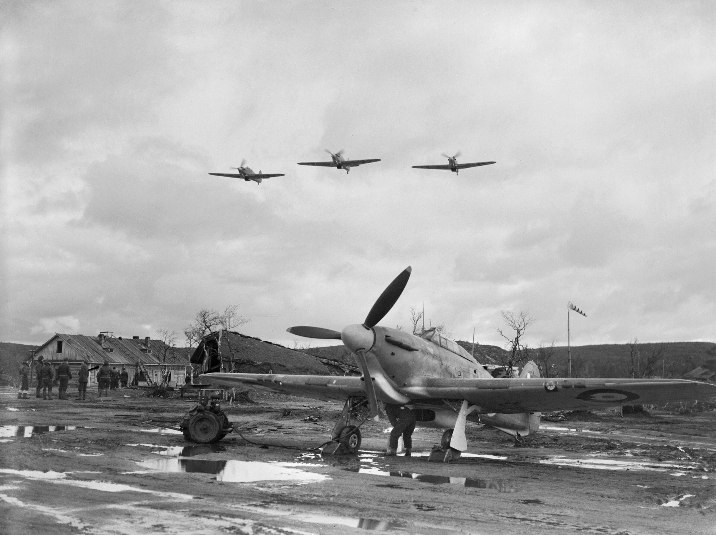 No. 151 Wing Royal Air Force Operations in Russia, September-november 1941 A mechanic attaches the cable of a trolley-accumulator to a Hawker Hurricane Mark IIB of No. 81 Squadron RAF on the waterlogged airfield at Vaenga, as a section of three Hurricanes flies overhead.